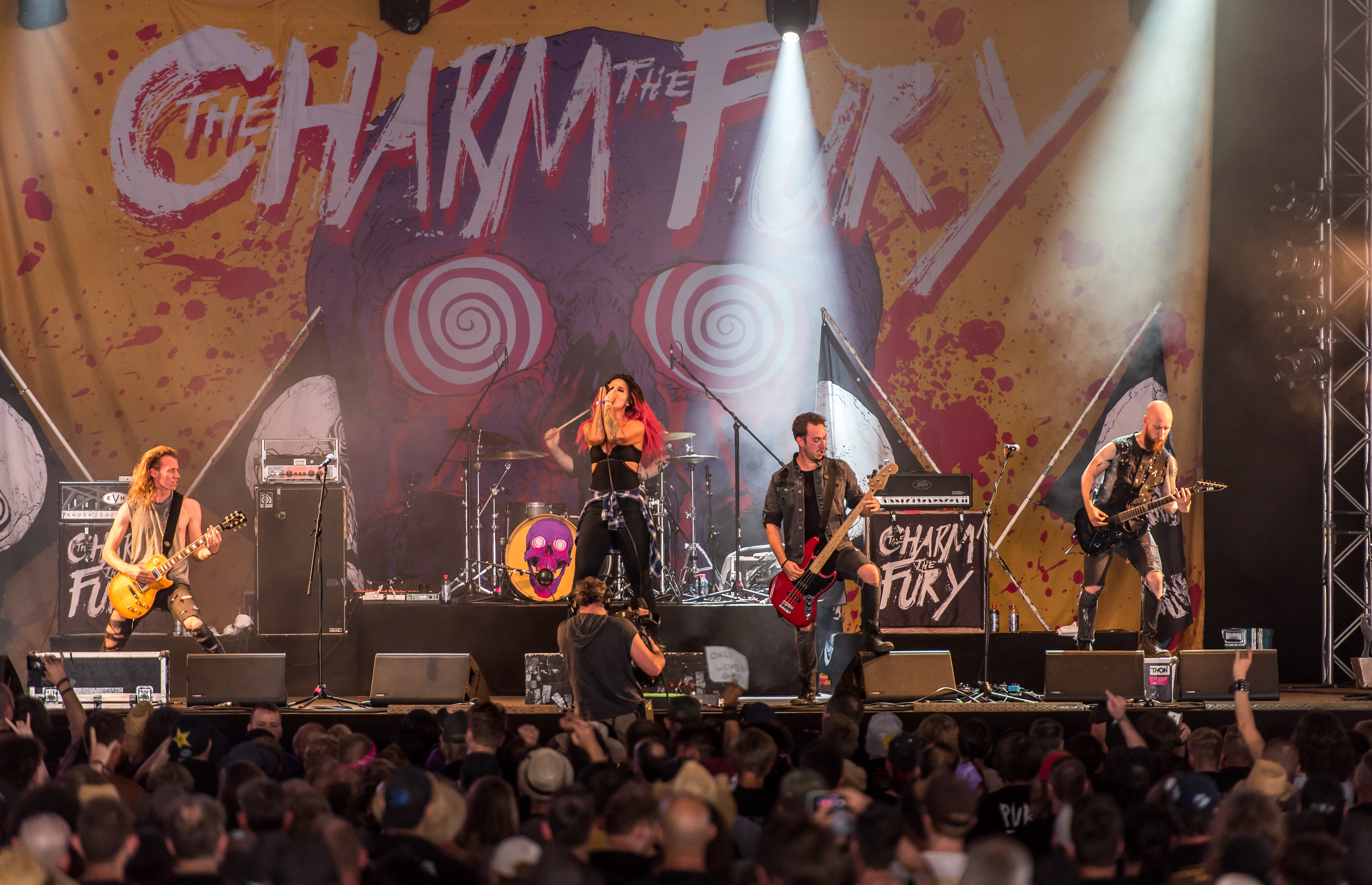 The Charm the Fury playing at Wacken Open Air 2018